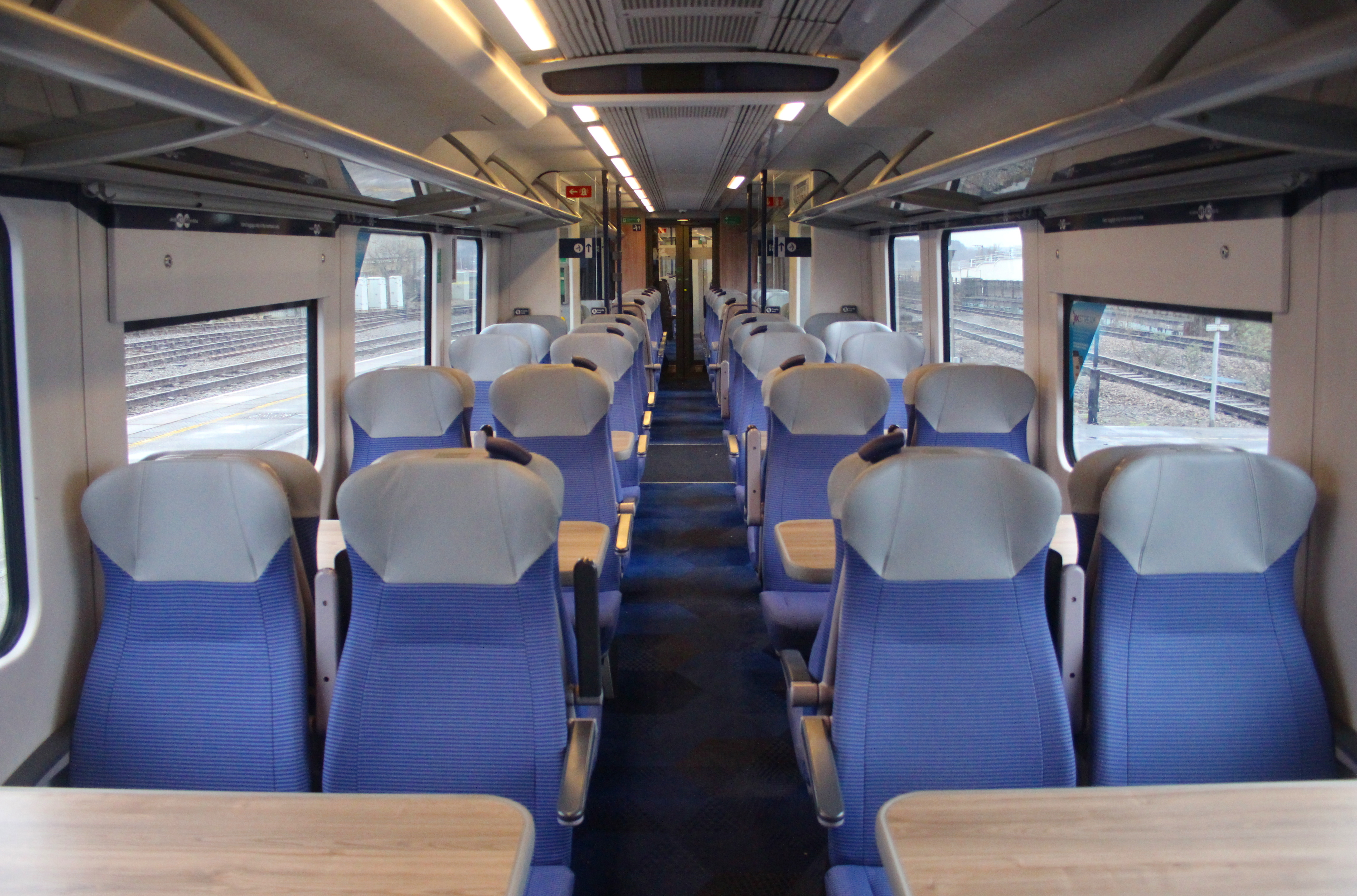 The refurbished Standard Class interior of a TPE Class 185 diesel unit.